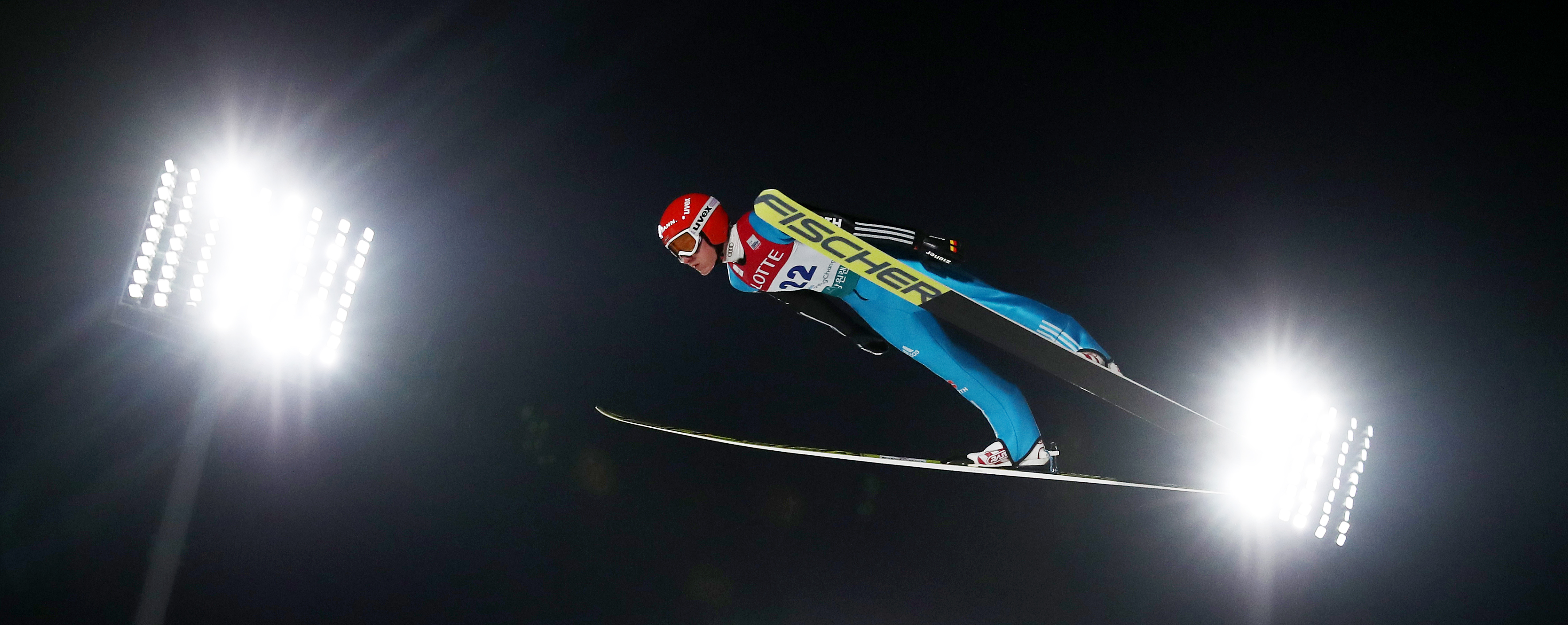 FIS Nordic Combined World Cup February 4, 2017 Alpensia Cross-Country Center, Pyeongchang-gun, Gangwon-do Ministry of Culture, Sports and Tourism Korean Culture and Information Service ( Official Photographer : Jeon Han This official Republic of Korea photograph is being made available only for publication by news organizations and/or for personal printing by the subject(s) of the photograph. The photograph may not be manipulated in any way. Also, it may not be used in any type of commercial, advertisement, product or promotion that in any way suggests approval or endorsement from the government of the Republic of Korea. FIS 노르딕컴바인 월드컵 2017-02-04 알펜시아 크로스컨트리 센터 문화체육관광부 해외문화홍보원 코리아넷 전한